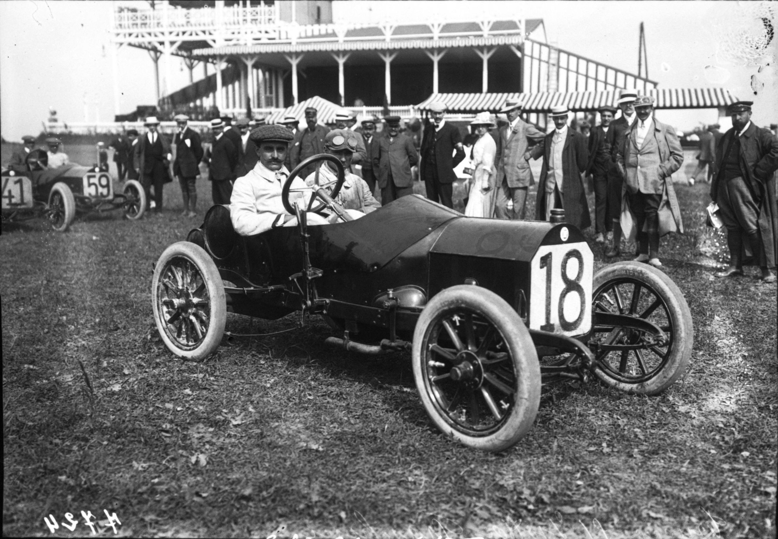 Vincenzo Trucco in his Isotta-Fraschini at the 1908 Grand Prix des Voiturettes at Dieppe.